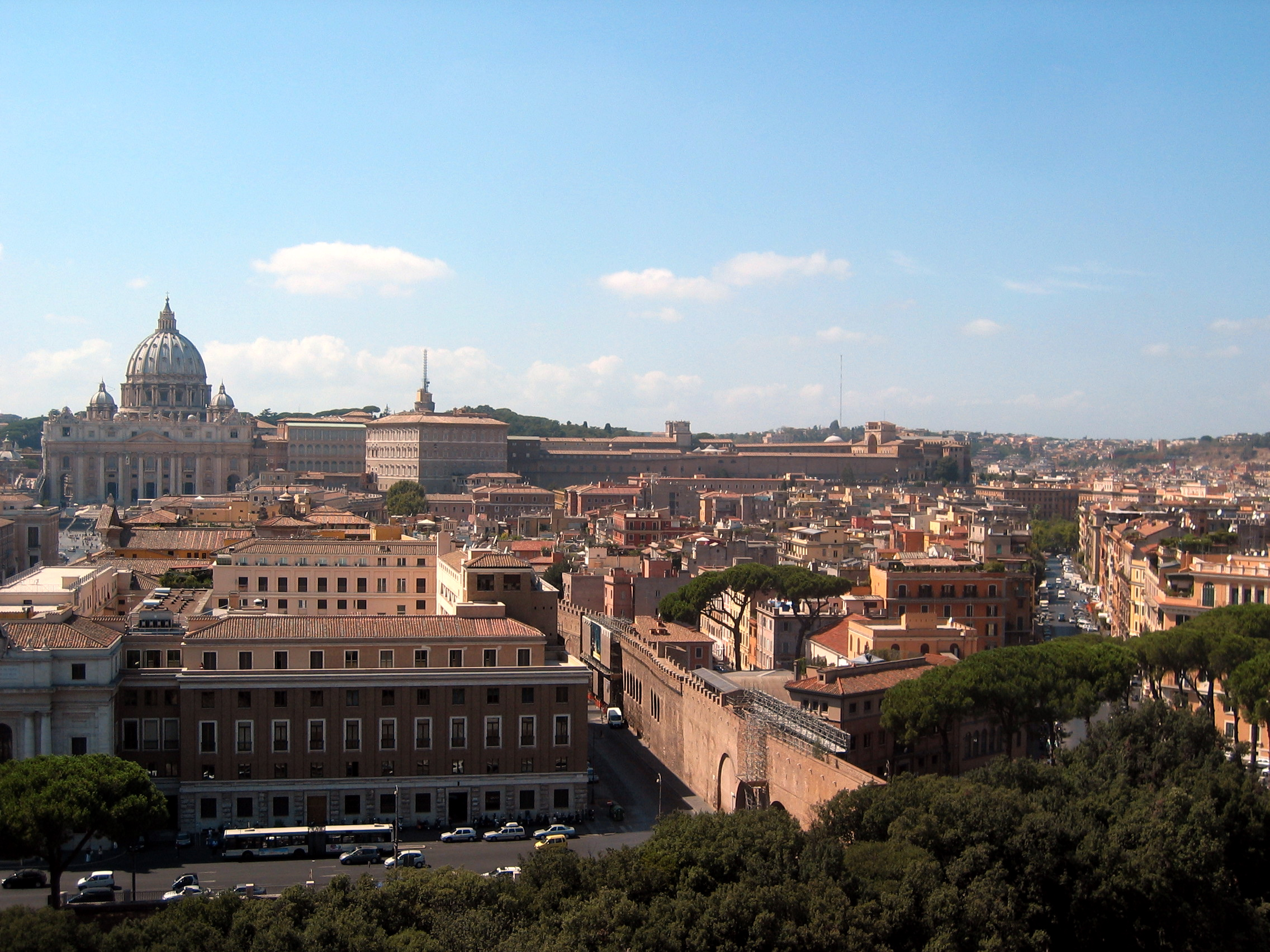 A view of Rome from atop the Castel Sant'Angelo. St. Peter's Basilica can be seen at the left.